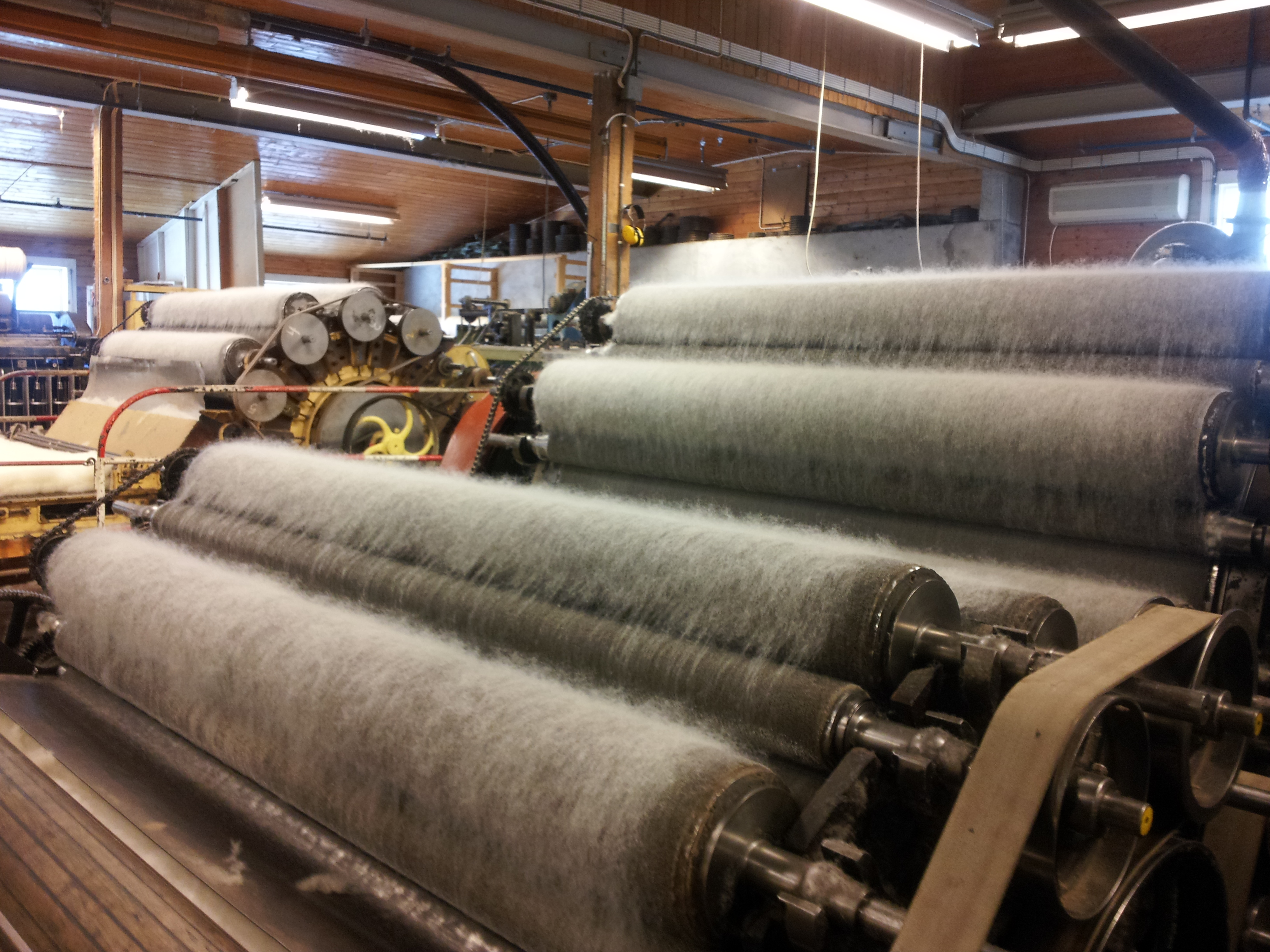 Carding Machine from Hillesvåg Ullvarefabrikk